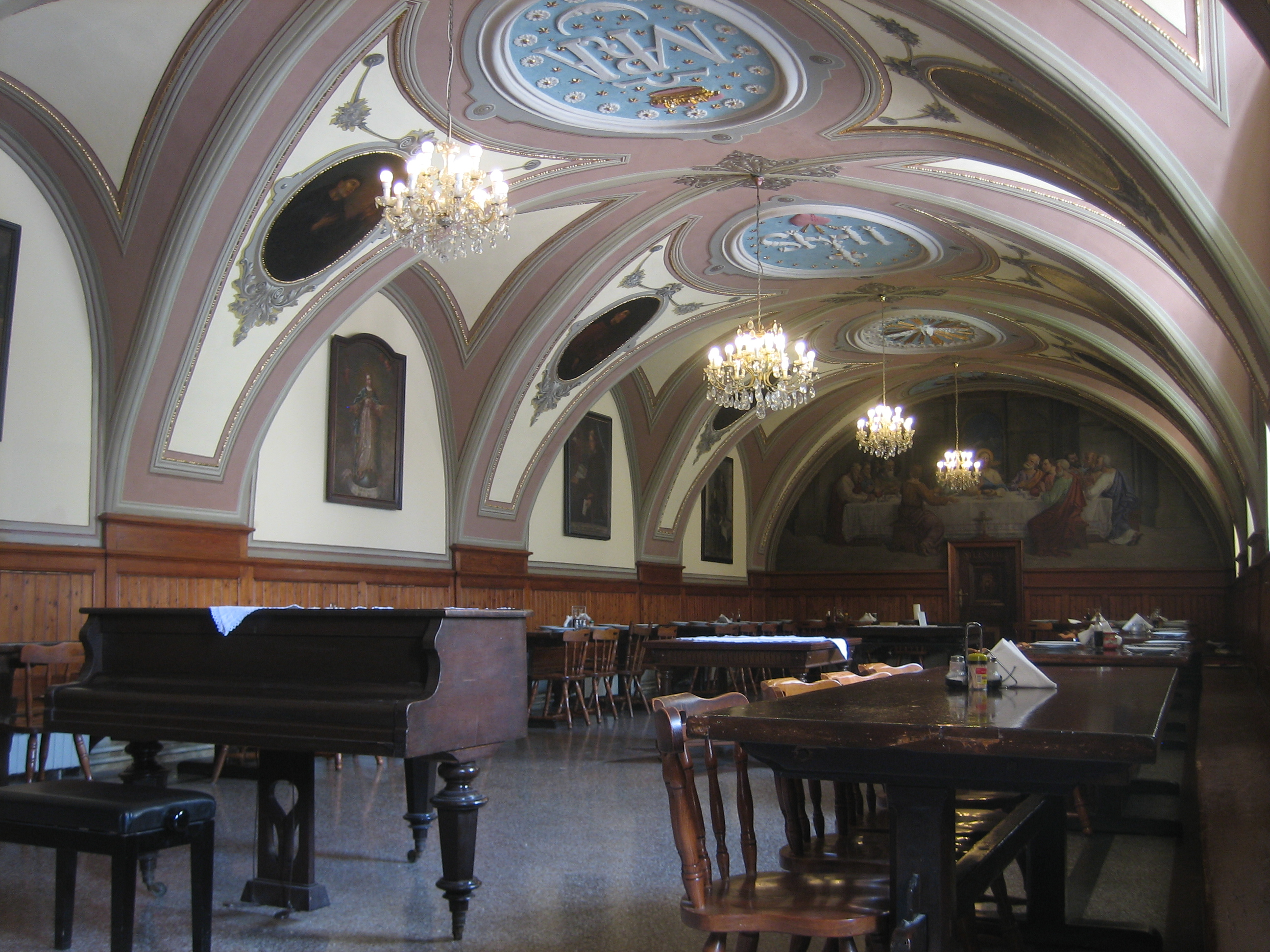 St. Francis Monastery of the franciscans in Zagreb, Croatia. Refectory.